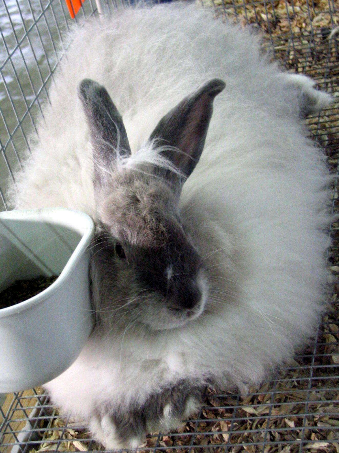 "Although this looks like a bunny head photoshopped onto a foot-and-a-half long cottonball, it's indeed all rabbit."